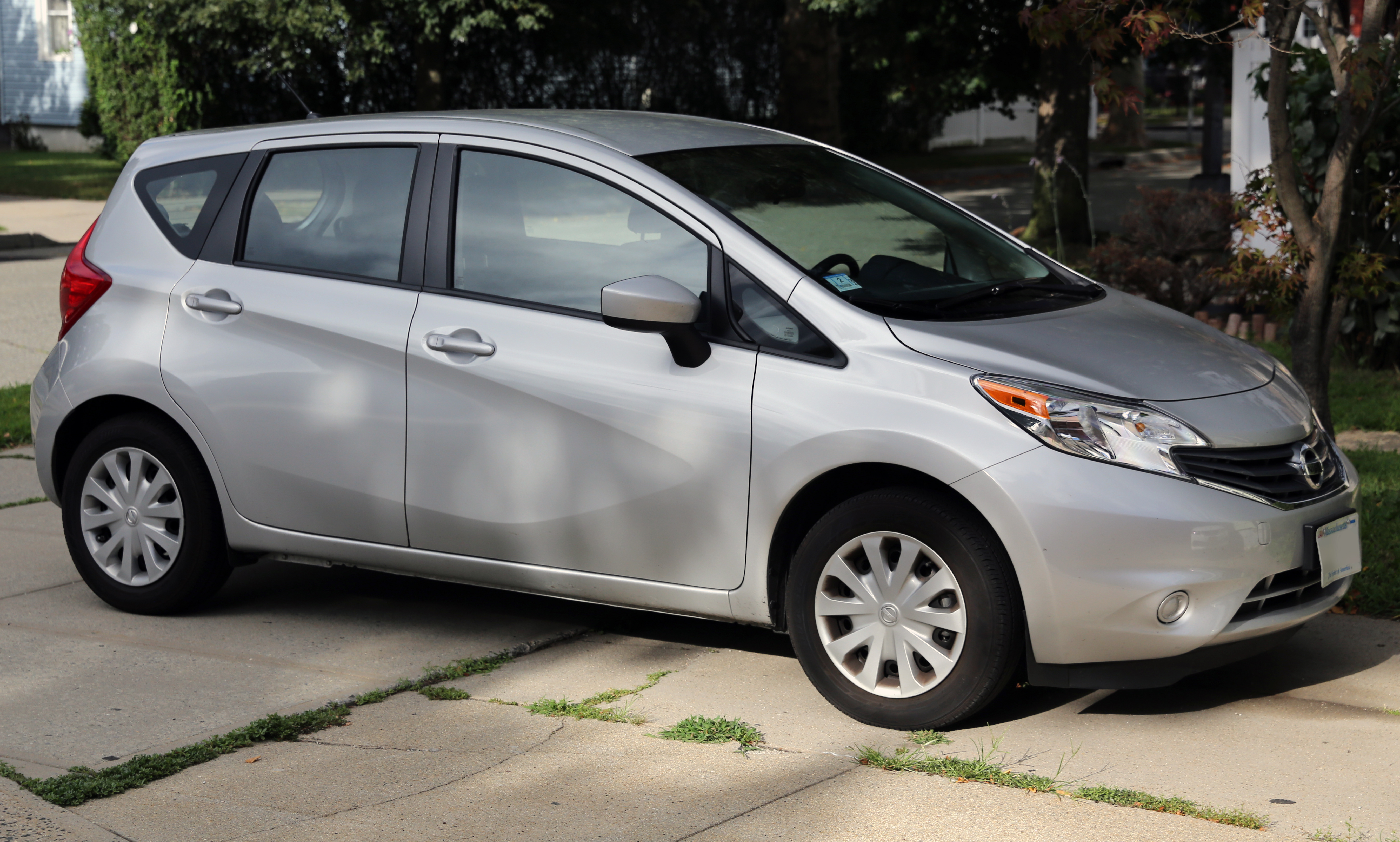 A 2015 Nissan Versa Note SV. Brilliant Silver over Charcoal and a CVT transmission, assembled in Mexico.